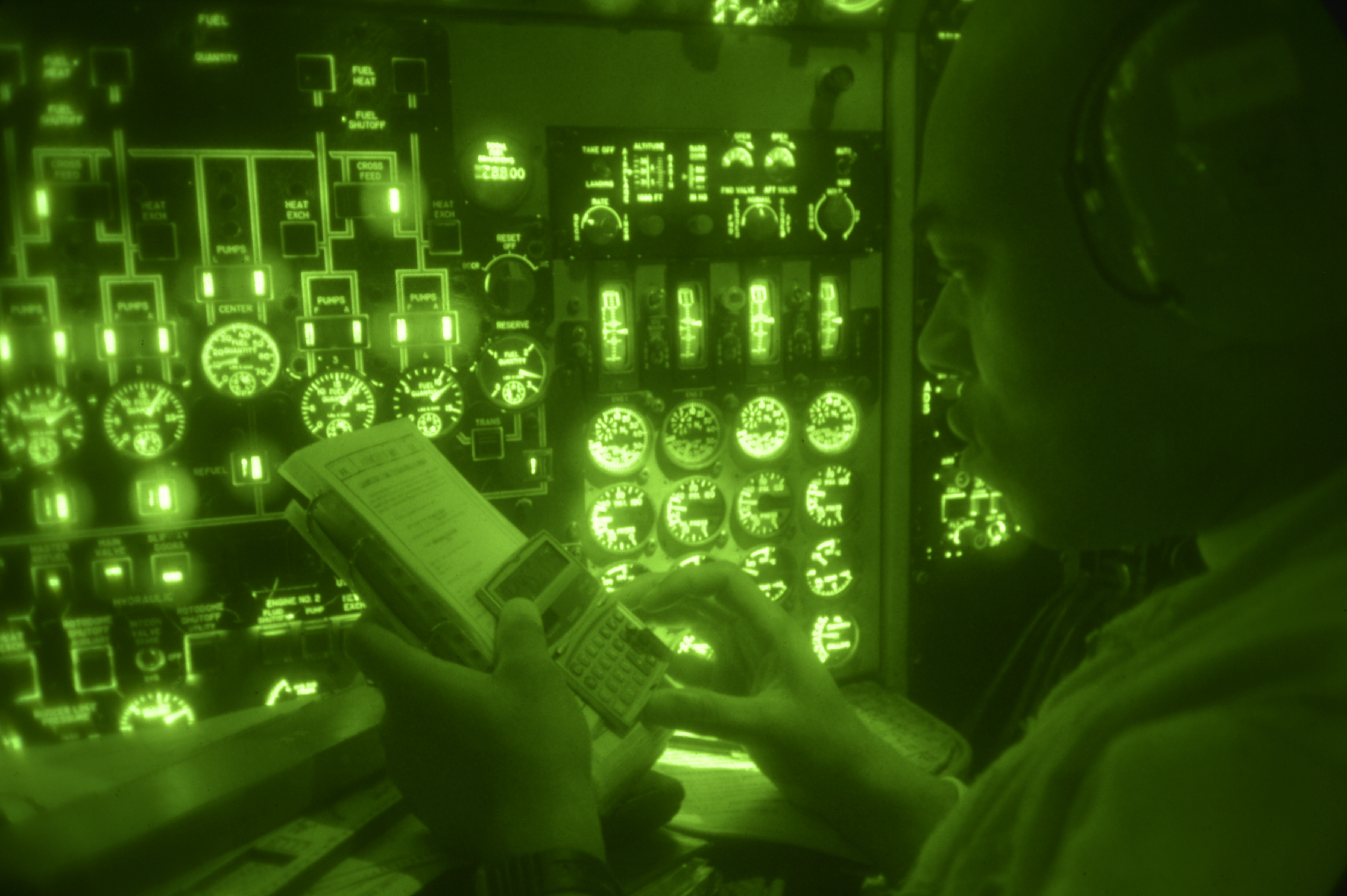 U.S. Air Force E-3B Sentry airborne warning and control system (AWACS) crew members conduct a mission in support of airstrikes against ISIL targets over northeastern Iraq, Oct. 2, 2014. The AWACS have been a part of the recent missions taking place in Iraq and Syria, controlling coalition aircraft to assist in eliminating ISIL targets. (U.S. Air Force's Central Photo)(Released)